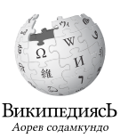 A logo for Wikipedia in the Erzya language.